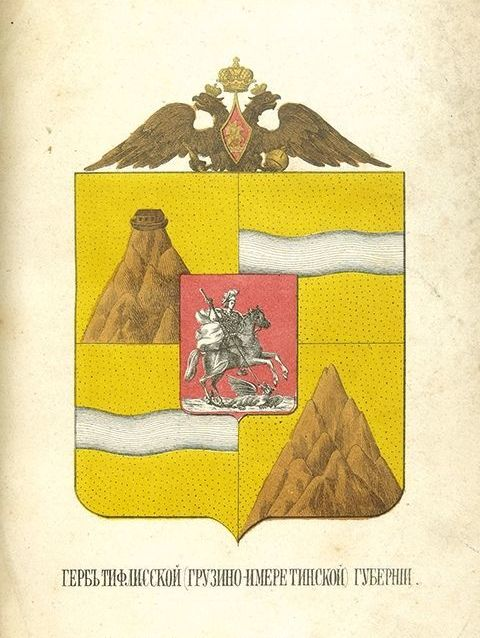 Coat of arms of Georgia-Imeretia Governorate, Russian Empire